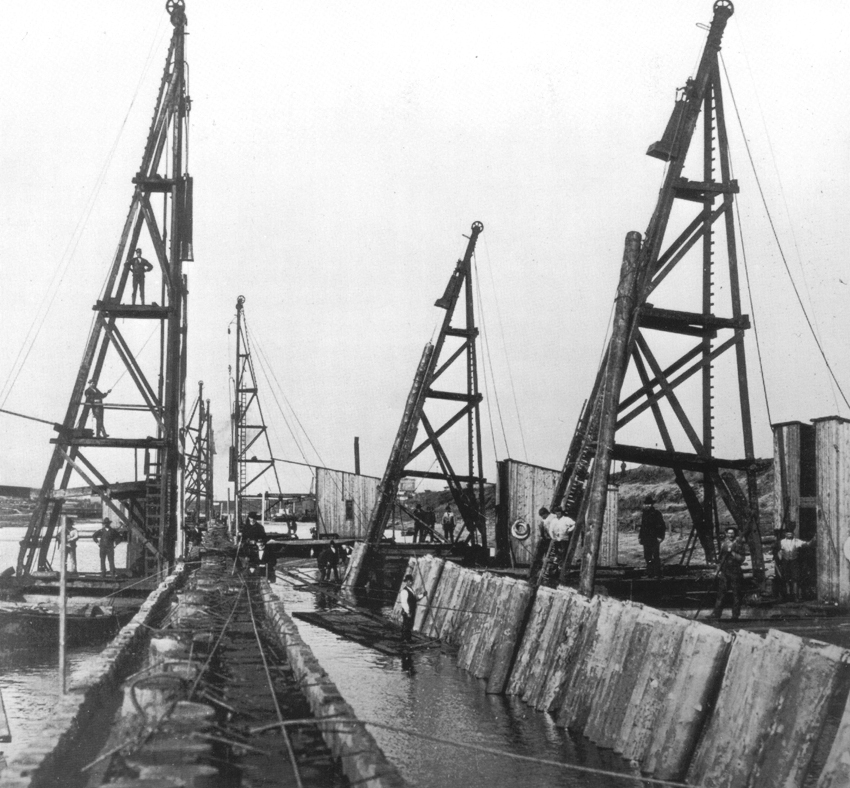 Pile driving works at the Weserkorrektion (the correction of the river Weser in Germany) between 1887 and 1895.